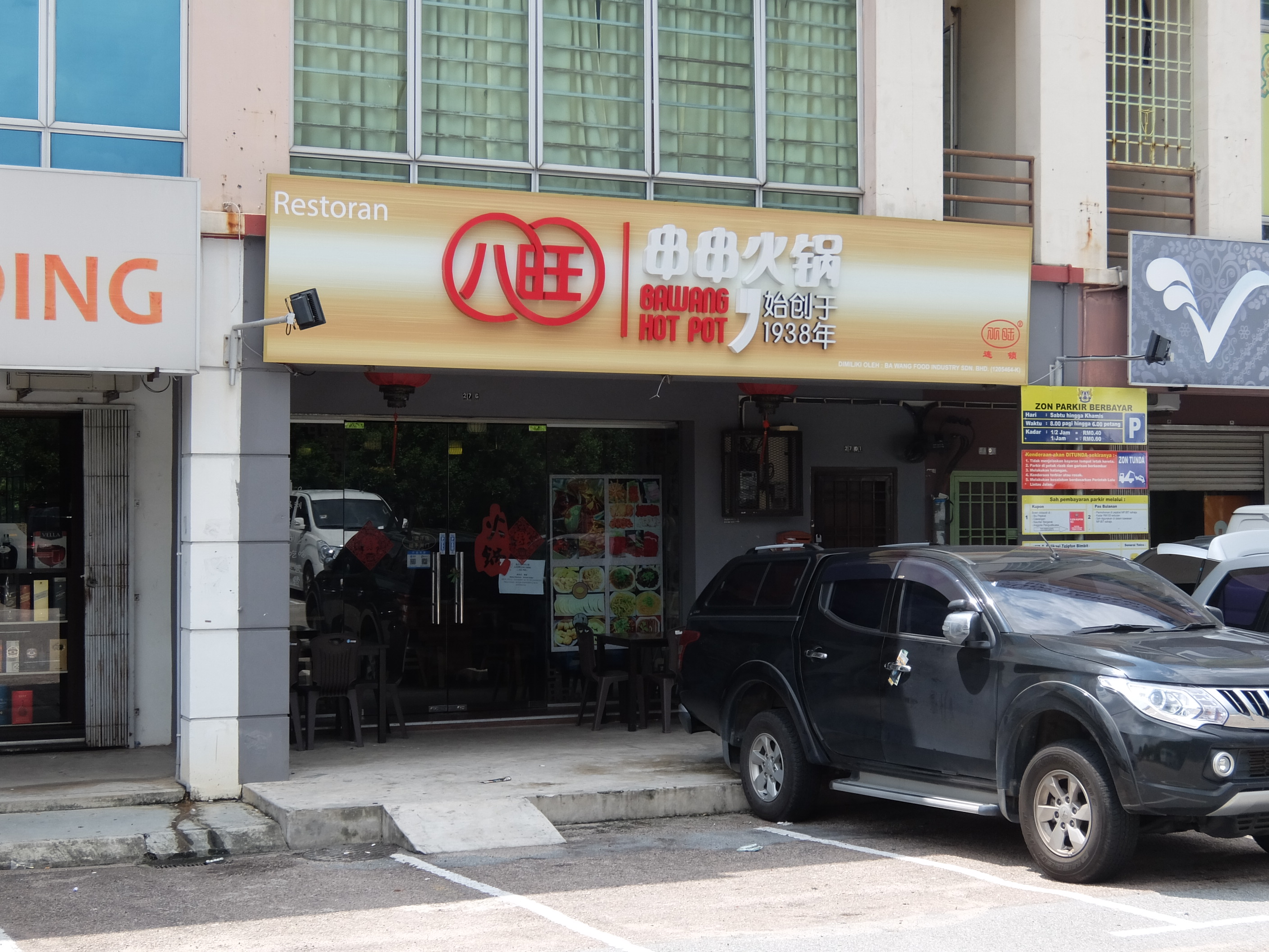 Bawang Hot Pot, Taman Nusa Bestari, Skudai, Iskandar Puteri, Johor, Malaysia